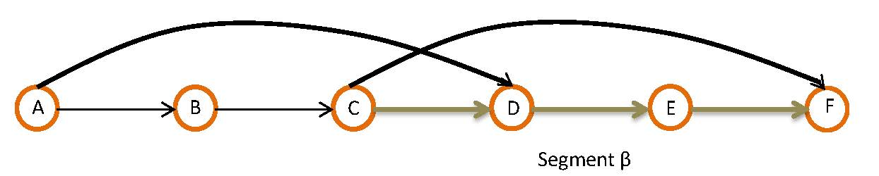 segment example